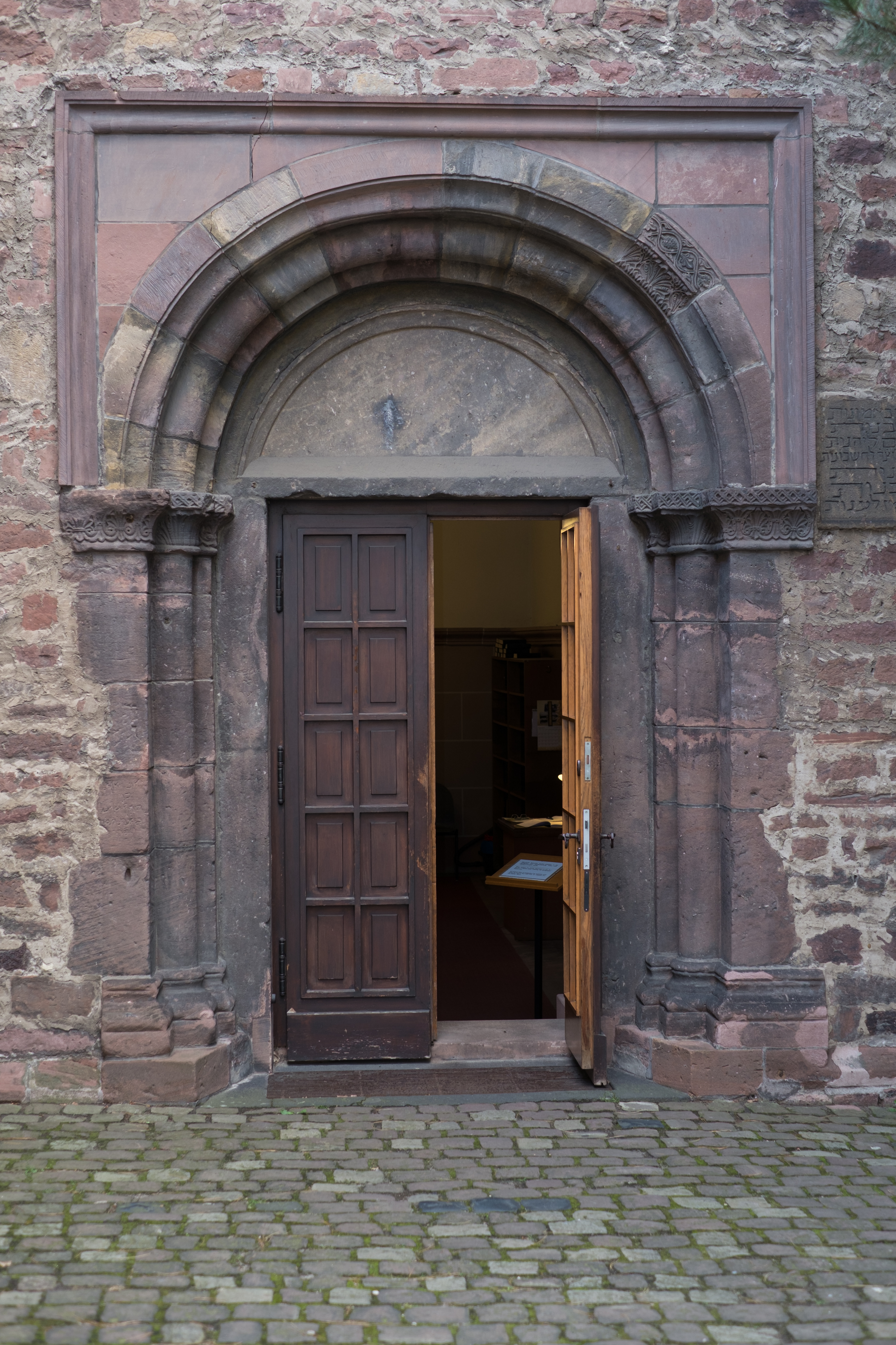 Synagogue Worms, Rhineland-Palatinate, Germany